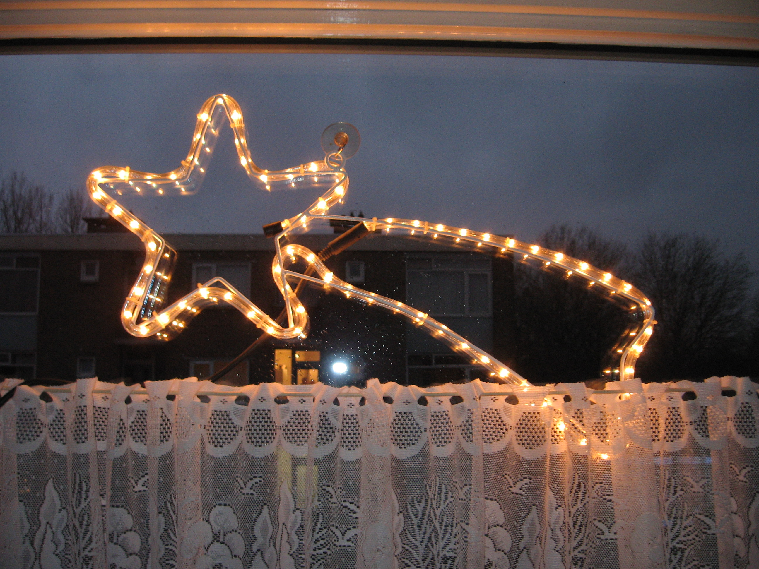 Christmas light decoration shaped like a shooting star.